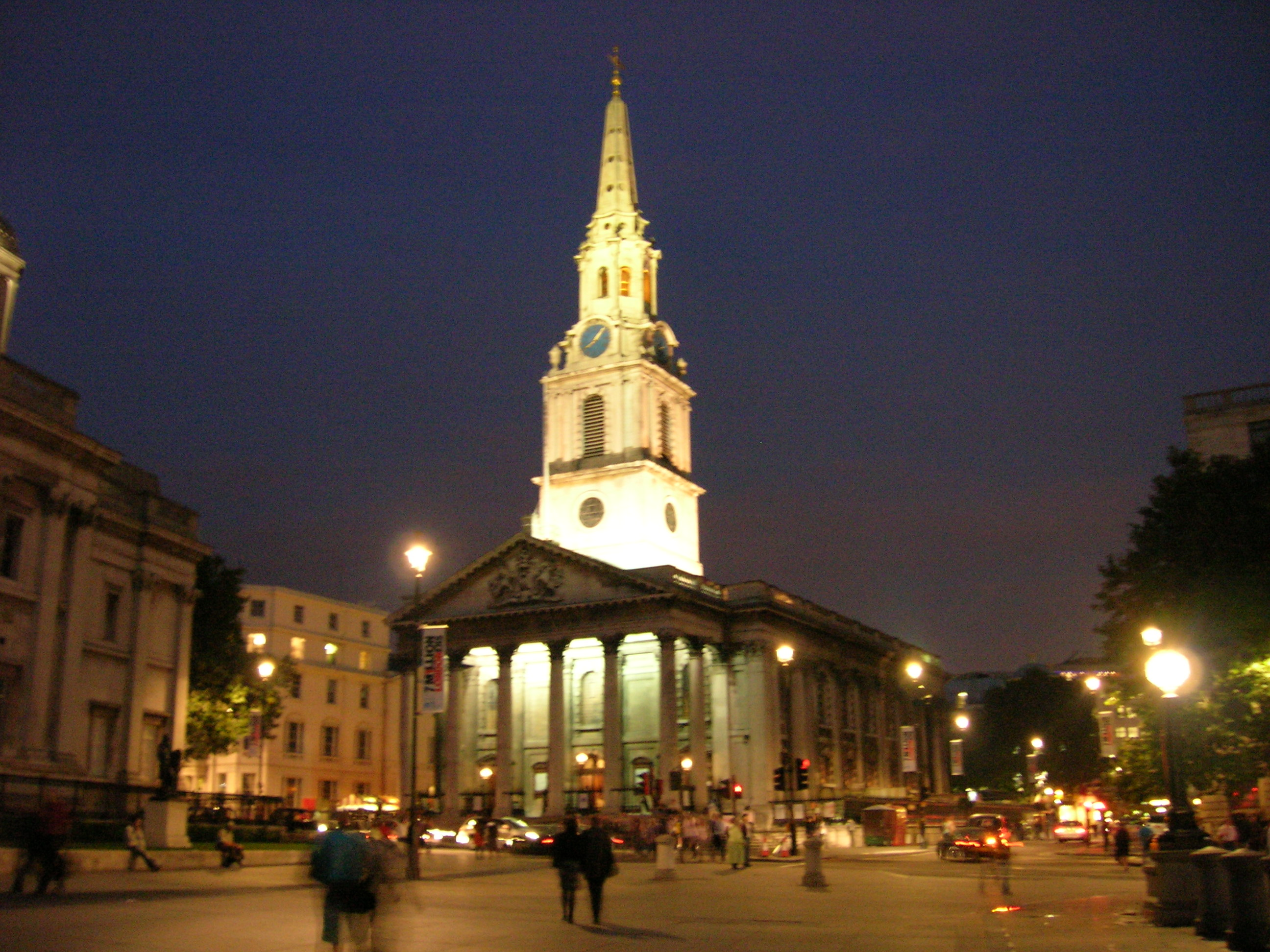 Parish church of St Martin in the Fields at night, viewed from outside the front door of the National Gallery, London (C) Gerry Lynch, 2005.